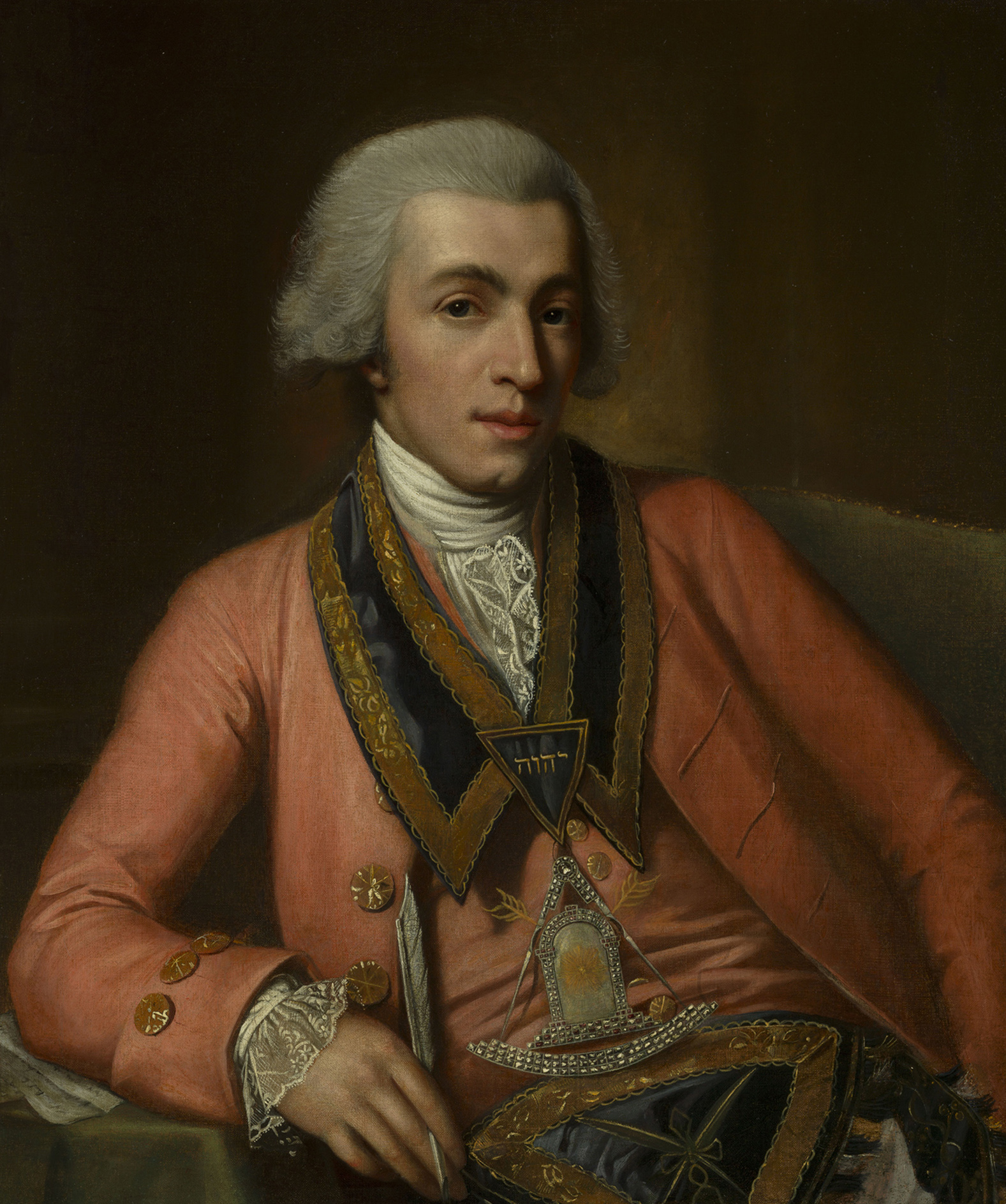 Portrait of Joseph Montfort (circa 1735-1776), 'The Provincial Grand Master of and for America'